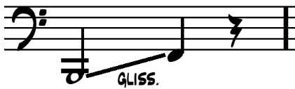 glissando for bass trombone, Concerto for Orchestra by Bartok